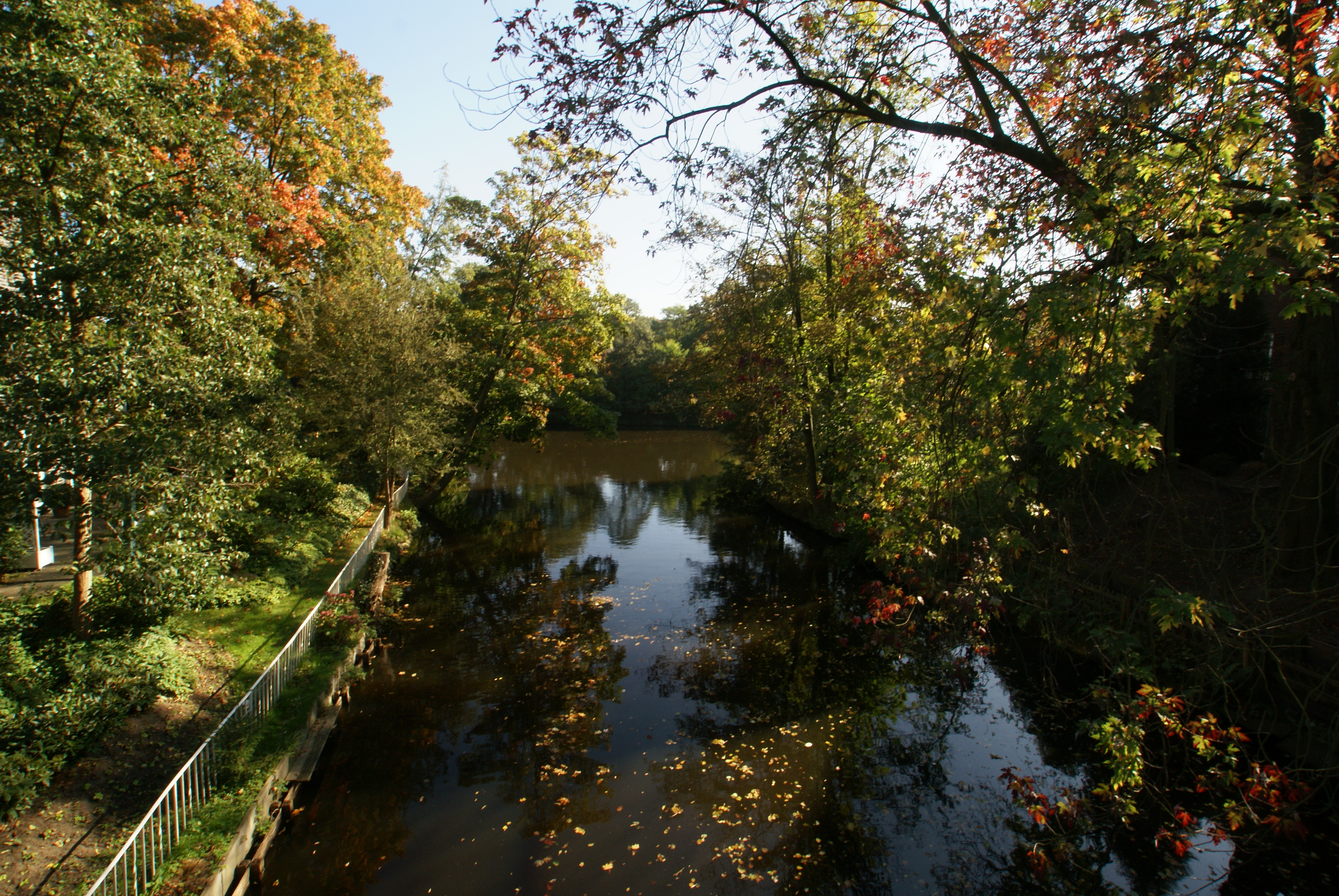 Hamburg (Alsterdorf), Germany: The Inselkanal in the directions of the soutern confluence with the Alster